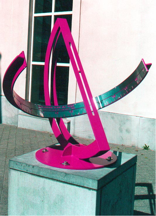 Spherical equitorial sundial, located nearby the city museum of Hasselt. On September 10, a small ball, welded into the slot casts a shadow on the centre of the hour band. On that date in 2000 there was a museum open day on the theme of time. The location is accurate +/- 20m.